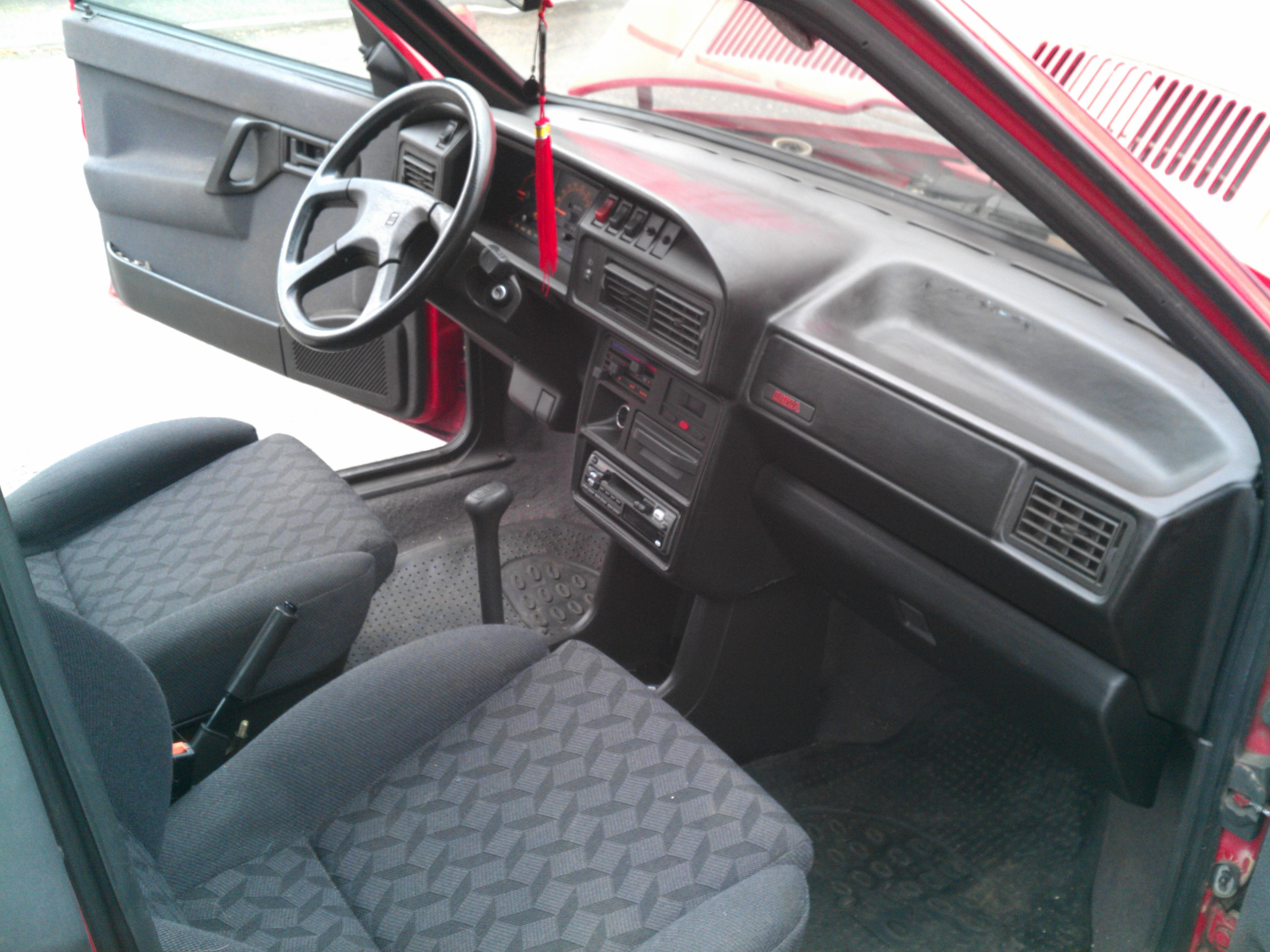 New facelifted version of Seat Ibiza 021a SXI interior.